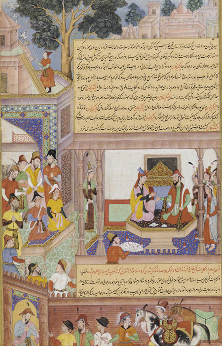 Kublai Khan and His Empress Enthroned, from a Jami al-Twarikh (or Chingiznama) 1596 Jami (d. 11492), Kesu Kalan Mughal dynasty Akbar(r. 1556 - 1605) Opaque watercolor, ink and gold on paper H: 38.8 W: 25.3 cm India Purchase~~Charles Lang Freer Endowment F1954.31